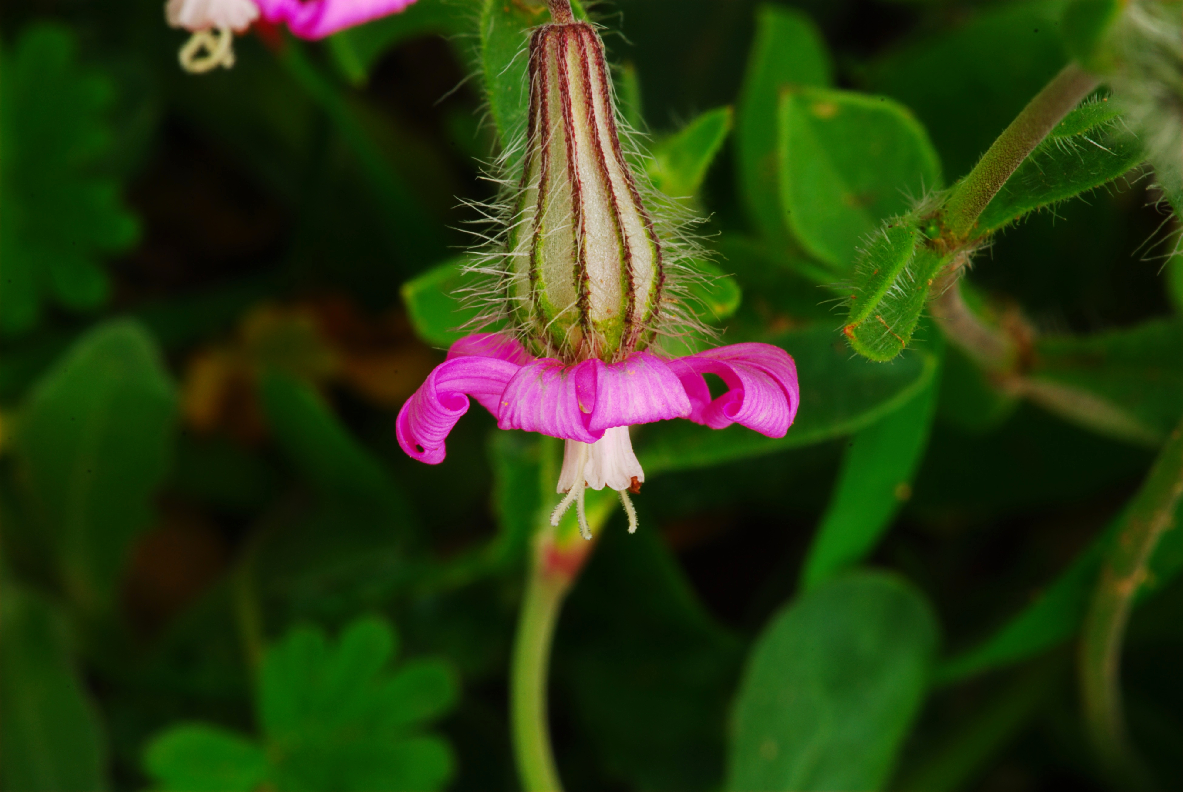 Silene colorata, Monfragüe, Extremadura, Spain.